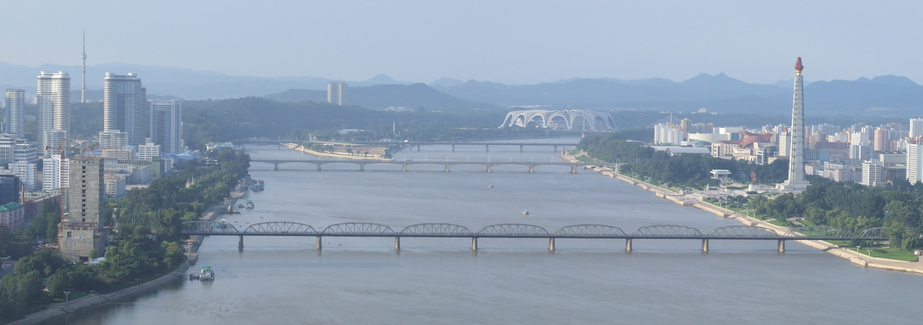 Taedong bridge in Pyongyang